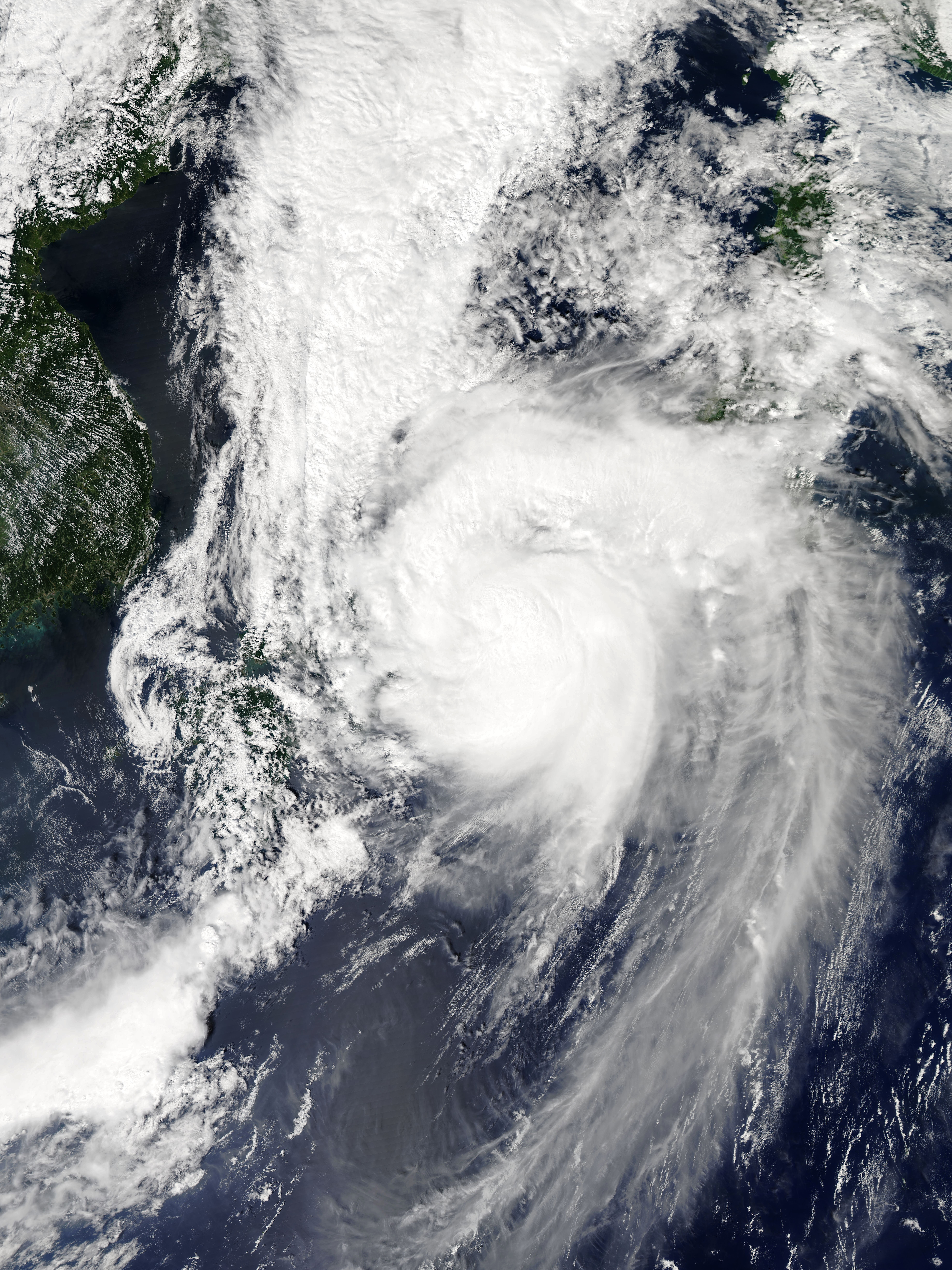 Typhoon Jebi over the Osaka Bay on September 4, 2018.